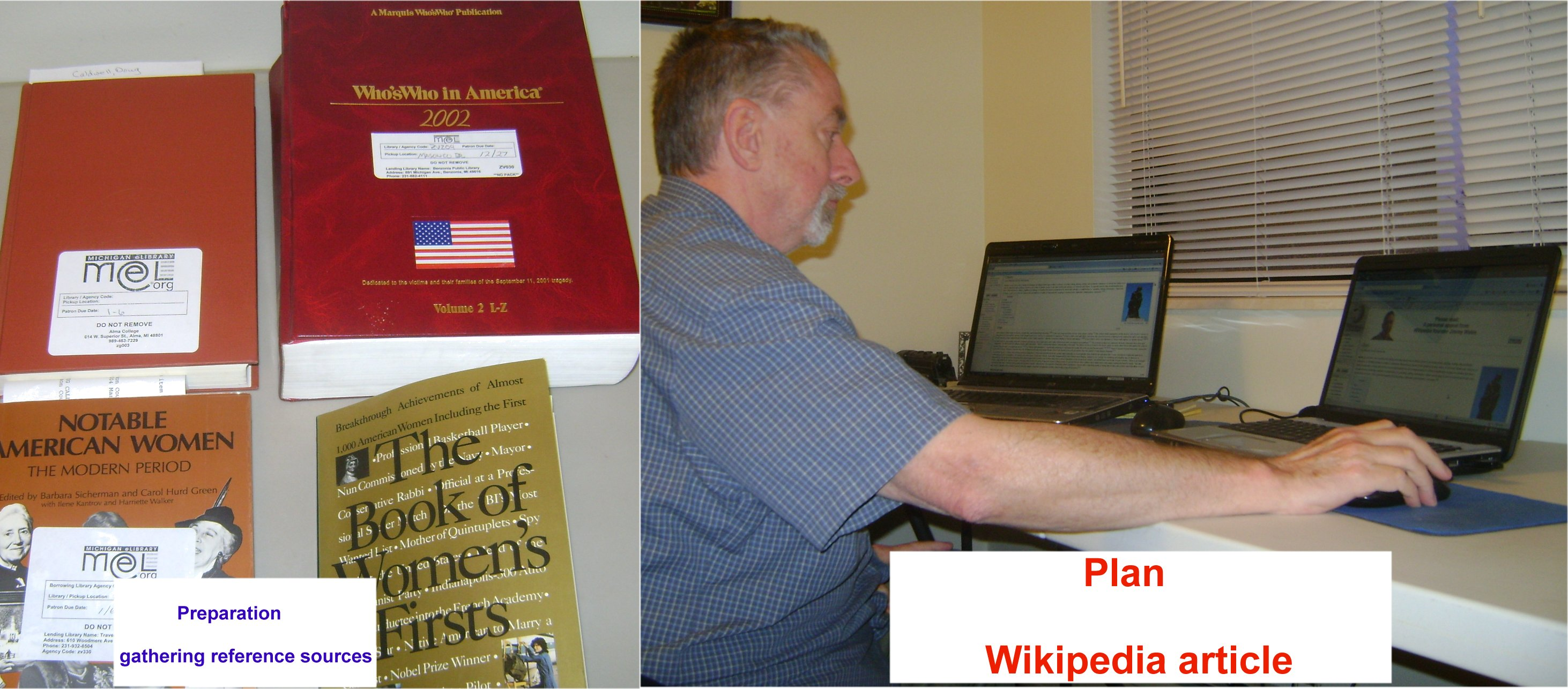 Wikipedian preparing to write an article